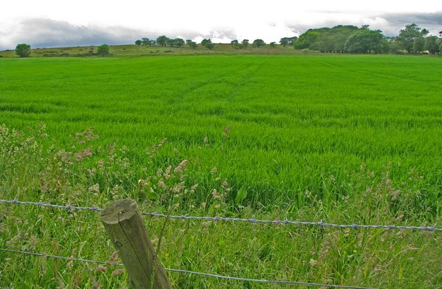 Grassy fields below the gentle northeast slopes of Droop Hill